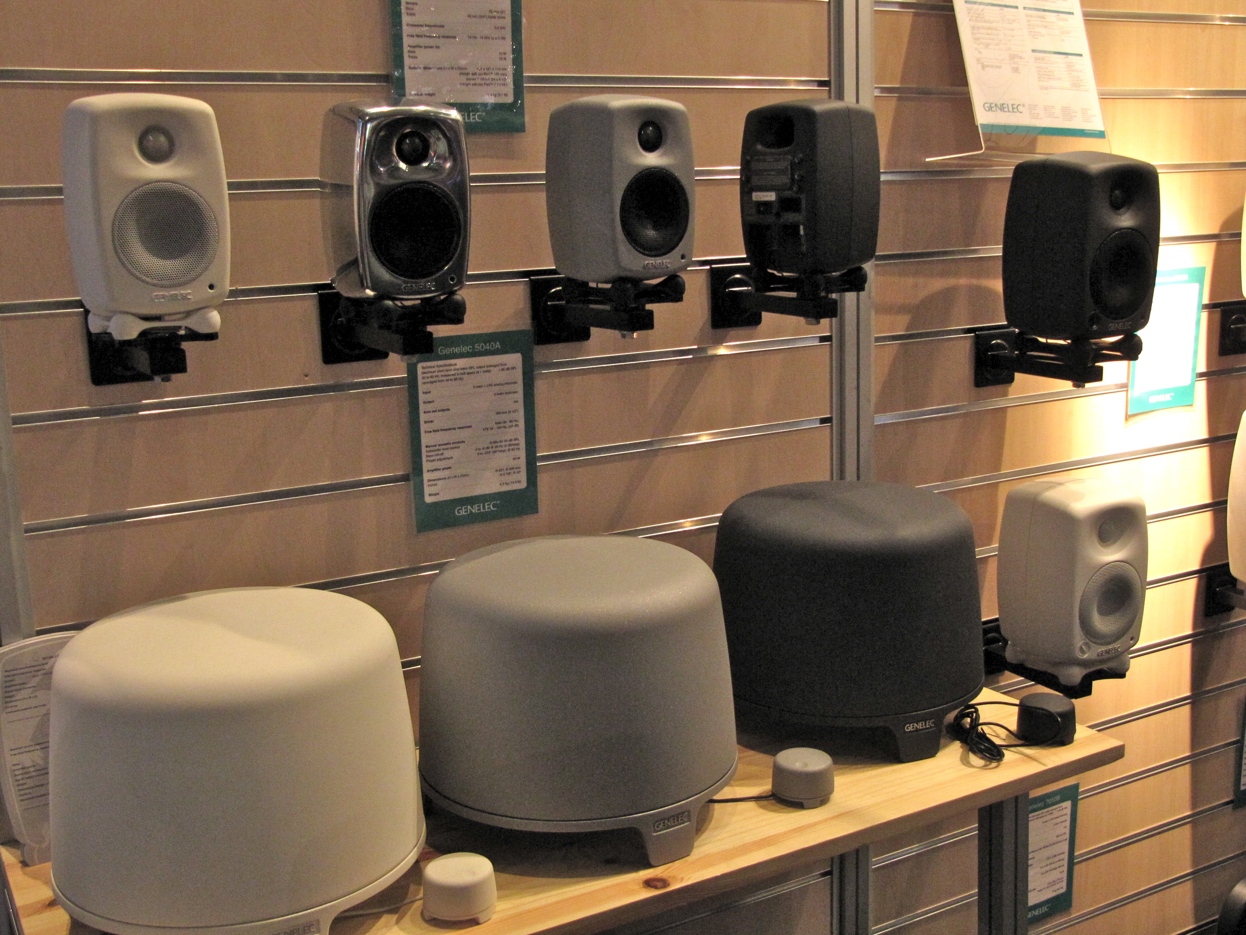 Genelec booth at IBC 2009. Genelec 6010A Genelec 5040A